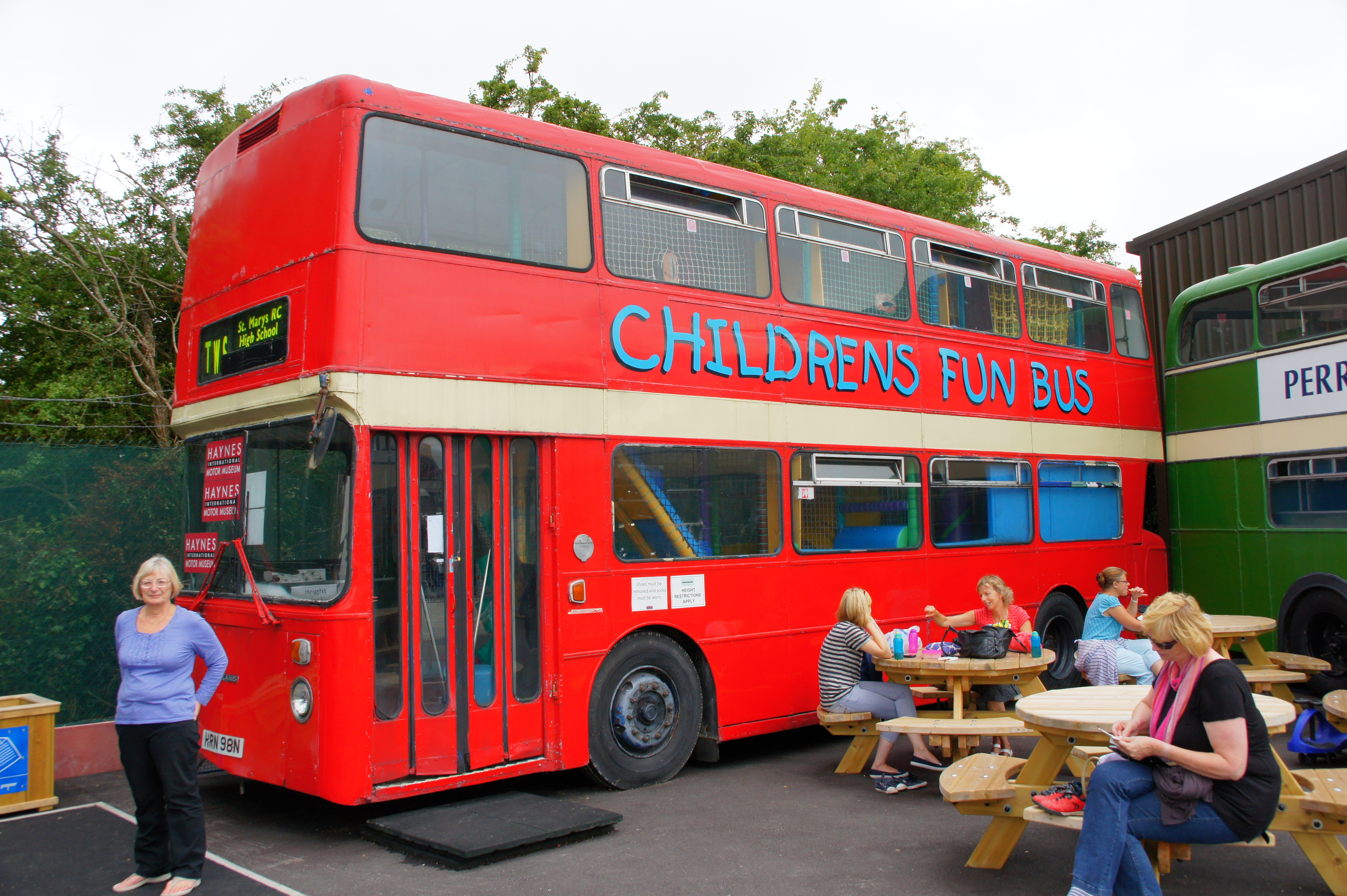 An ex Fylde Borough Atlantean